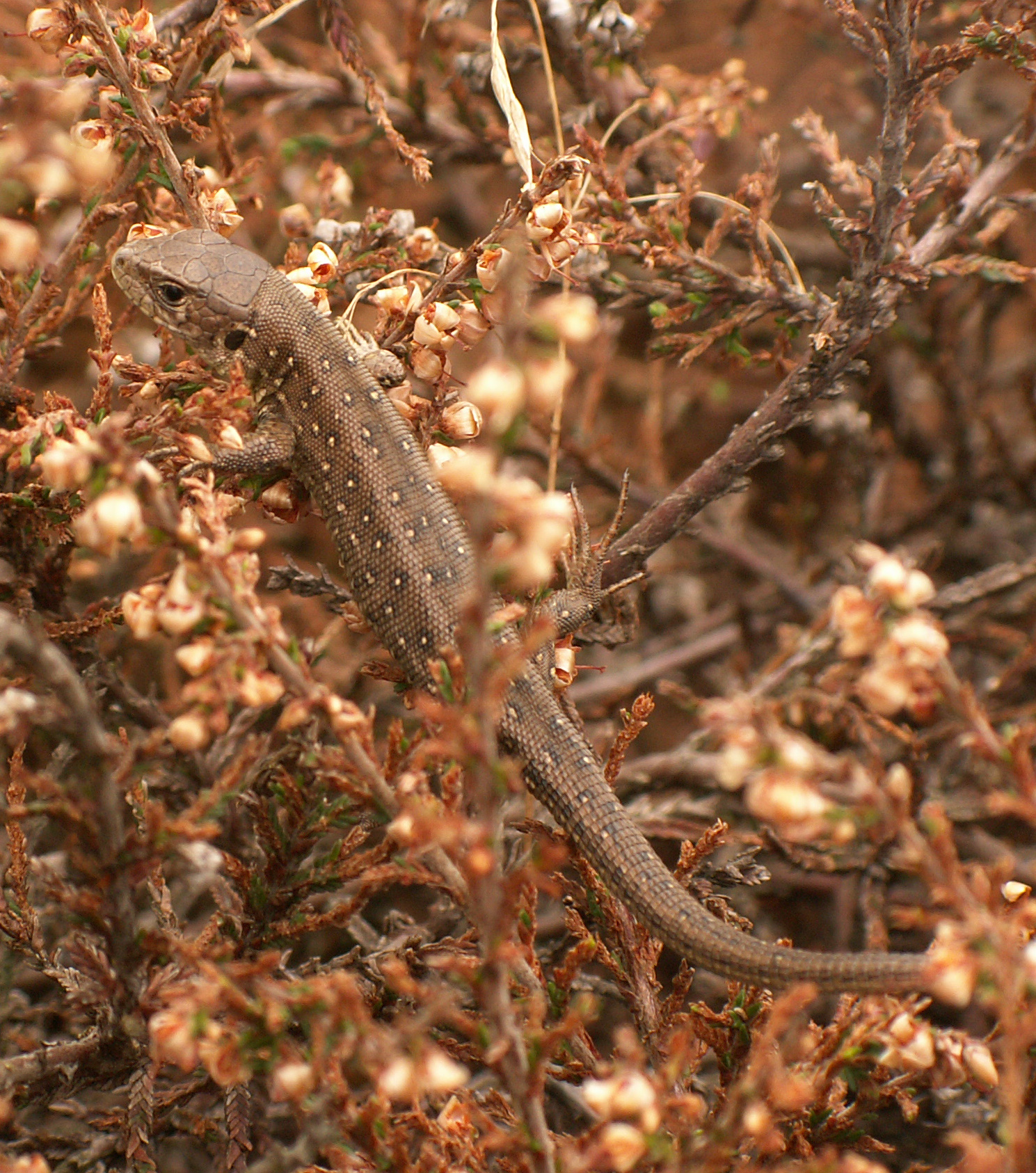 Lacerta agilis juvenile with typical "eye" spots on the side